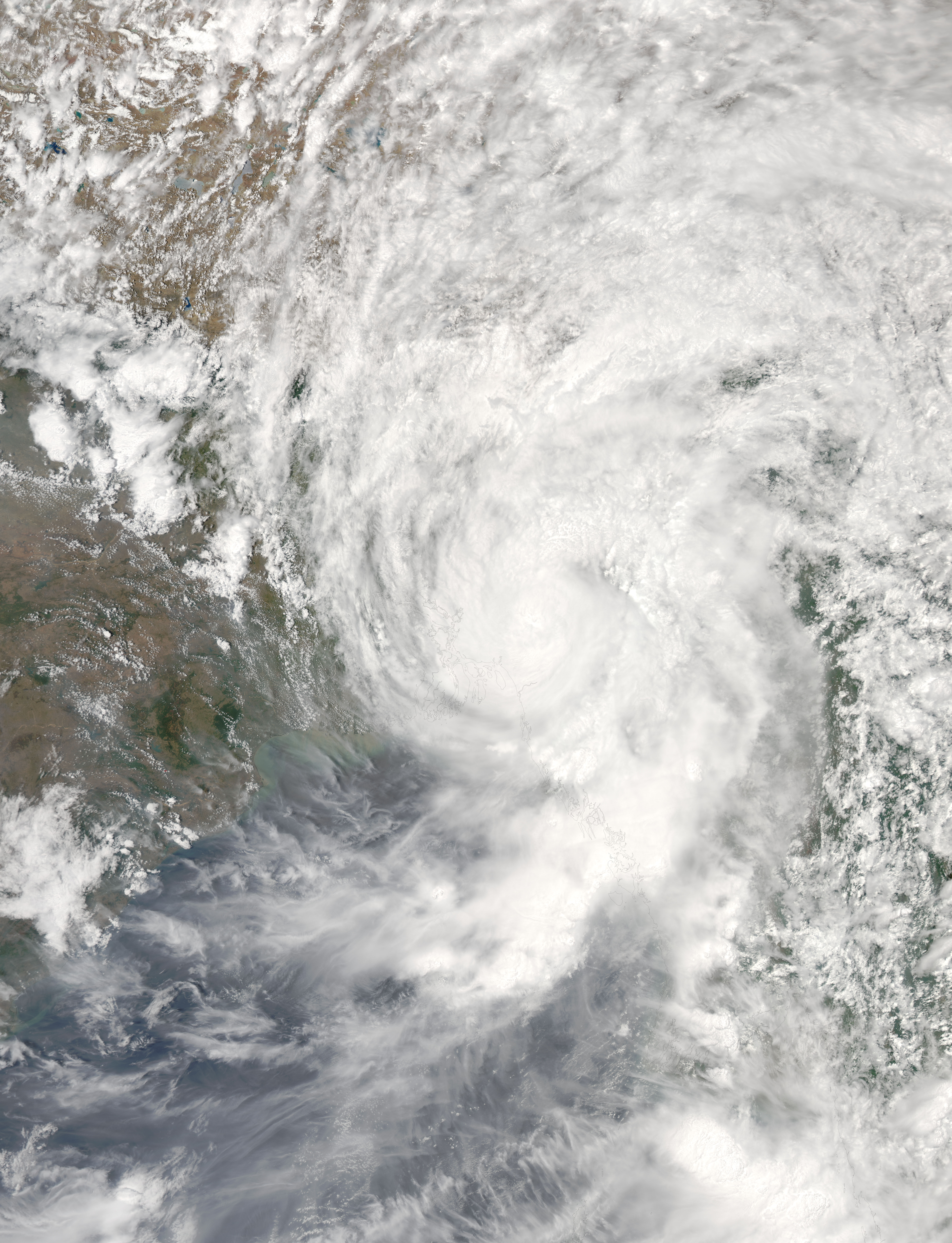 Tropical Cyclone Mora (02B) over Bangladesh, India, and Myanmar